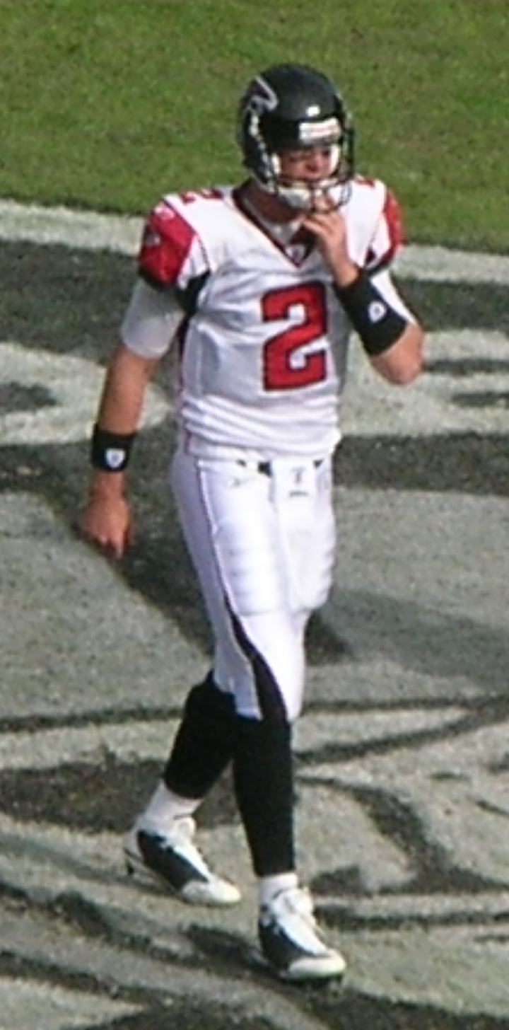 Atlanta Falcons quarterback Matt Ryan at a road game against the Oakland Raiders. The Falcons won 24-0.